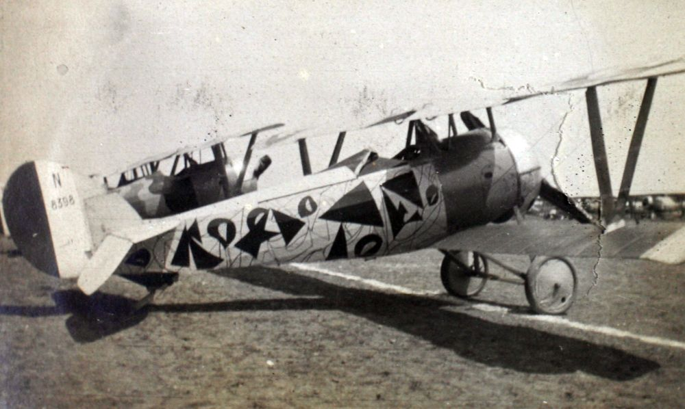 A USAS Nieuport 24 trainer with fancy paintjob